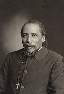 Benjamin Tucker Tanner, 1898 Mar. 30 / Curtiss, photographer. Henry Ossawa Tanner papers, 1860s-1978, bulk 1890-1937. Archives of American Art, Smithsonian Institution. Identification (handwritten): Your dear Papa, Benjamin Tucker Tanner, Kansas City, 3-30-98. Digital ID: 3578